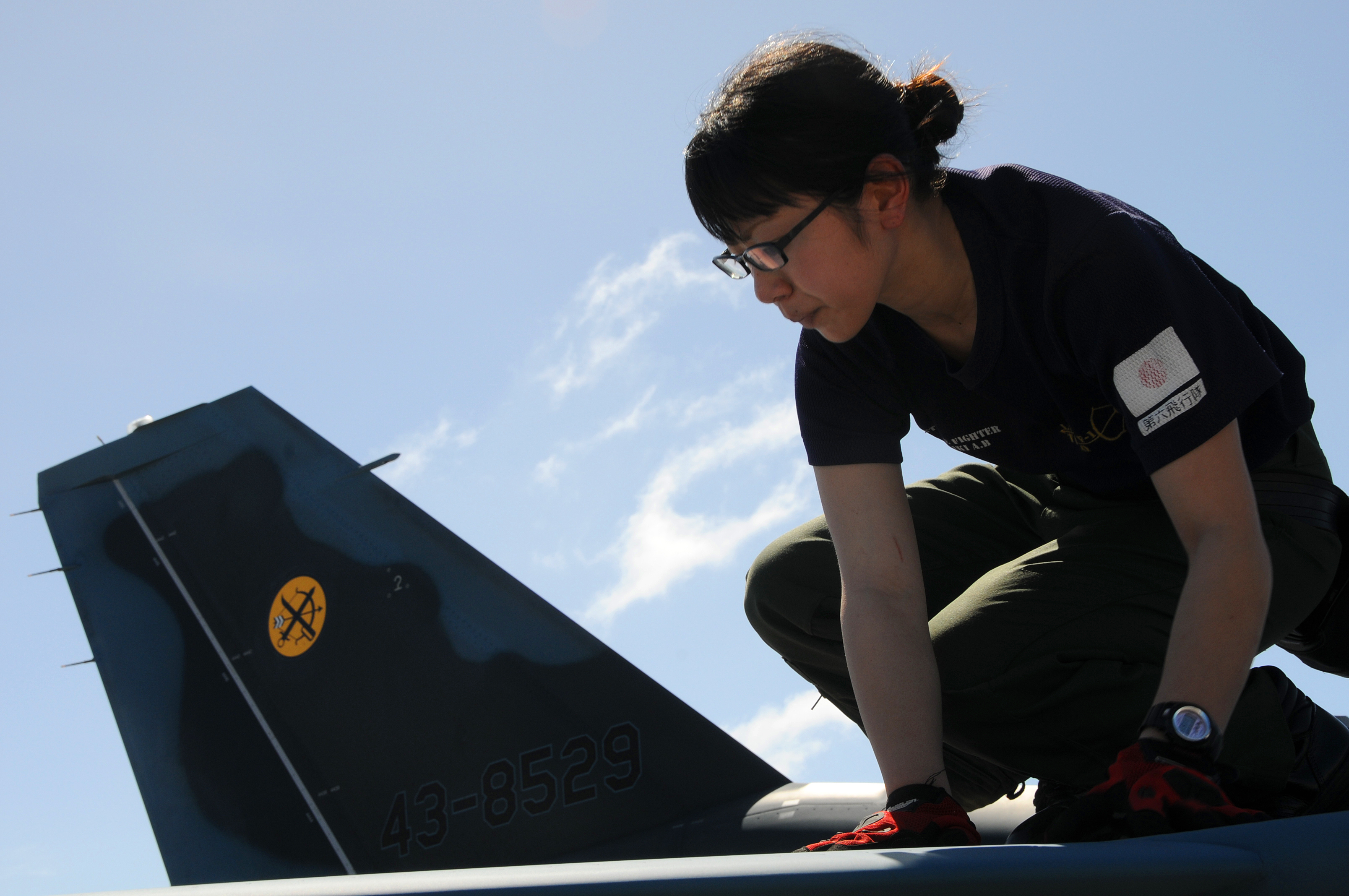 ANDERSEN AIR FORCE BASE, Guam - Japan Air Self Defense Force maintainer Staff Sgt. Teraya Miho inspects the horizontal stabilizer of F-2A (529) after its arrival at here Jan. 30 for participation in Cope North. The Cope North exercise is one of the longest-running series of exercises in the Pacific theater. Since the first Cope North exercise in 1978, thousands of American and Japanese personnel have honed skills that are vital to maintaining a high level of readiness. (U.S. Air Force photo by Airman 1st Class Courtney Witt) ↑ こちらの脚注を参照。